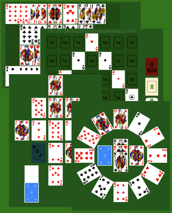 Four variations of solitaire (Patience) games to show its diversity.